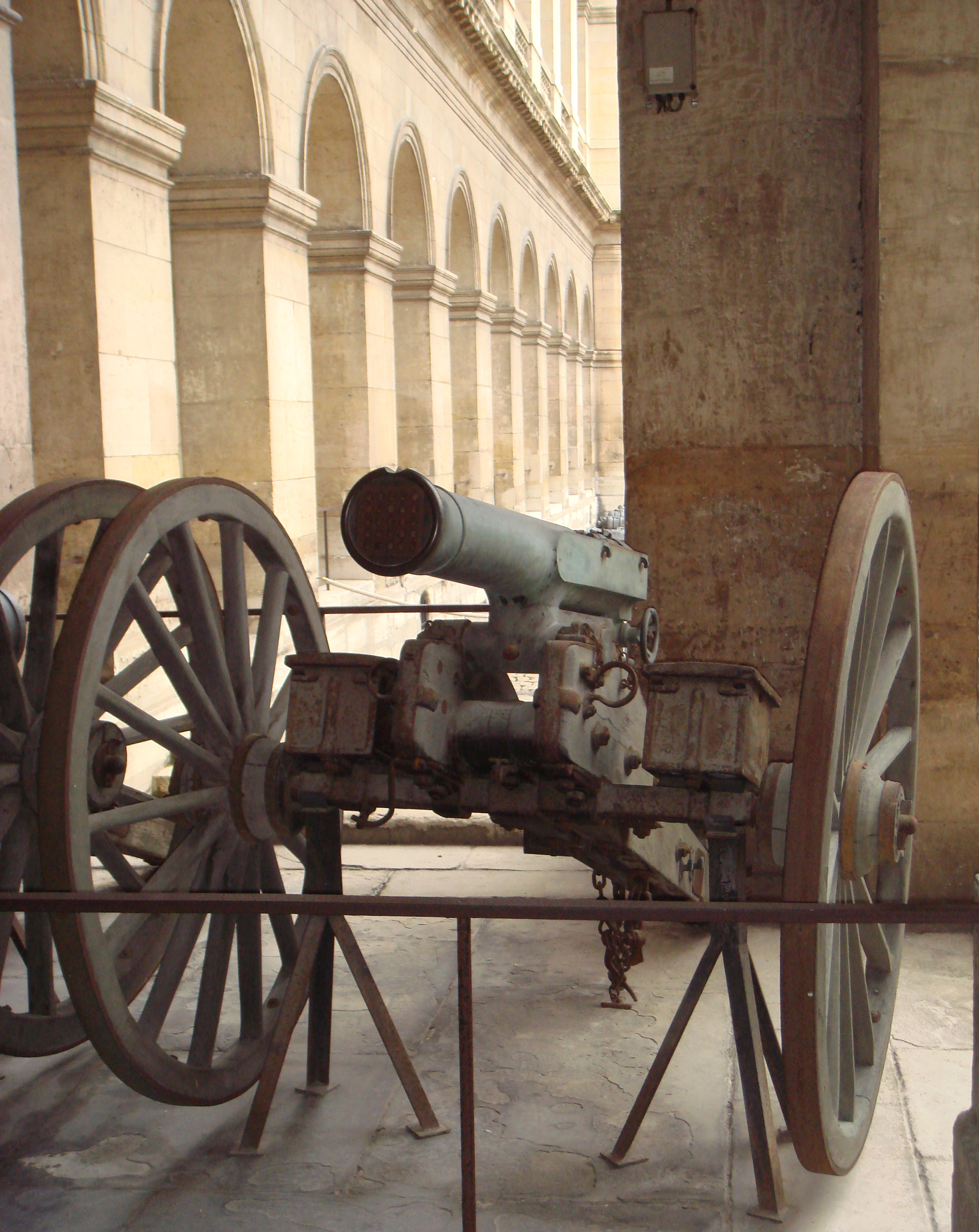 Reffye_mitrailleuse_"Le_General_Hanicque"